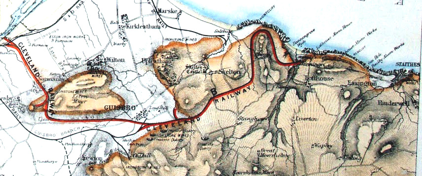 "Cleveland Railway, and its Connections"